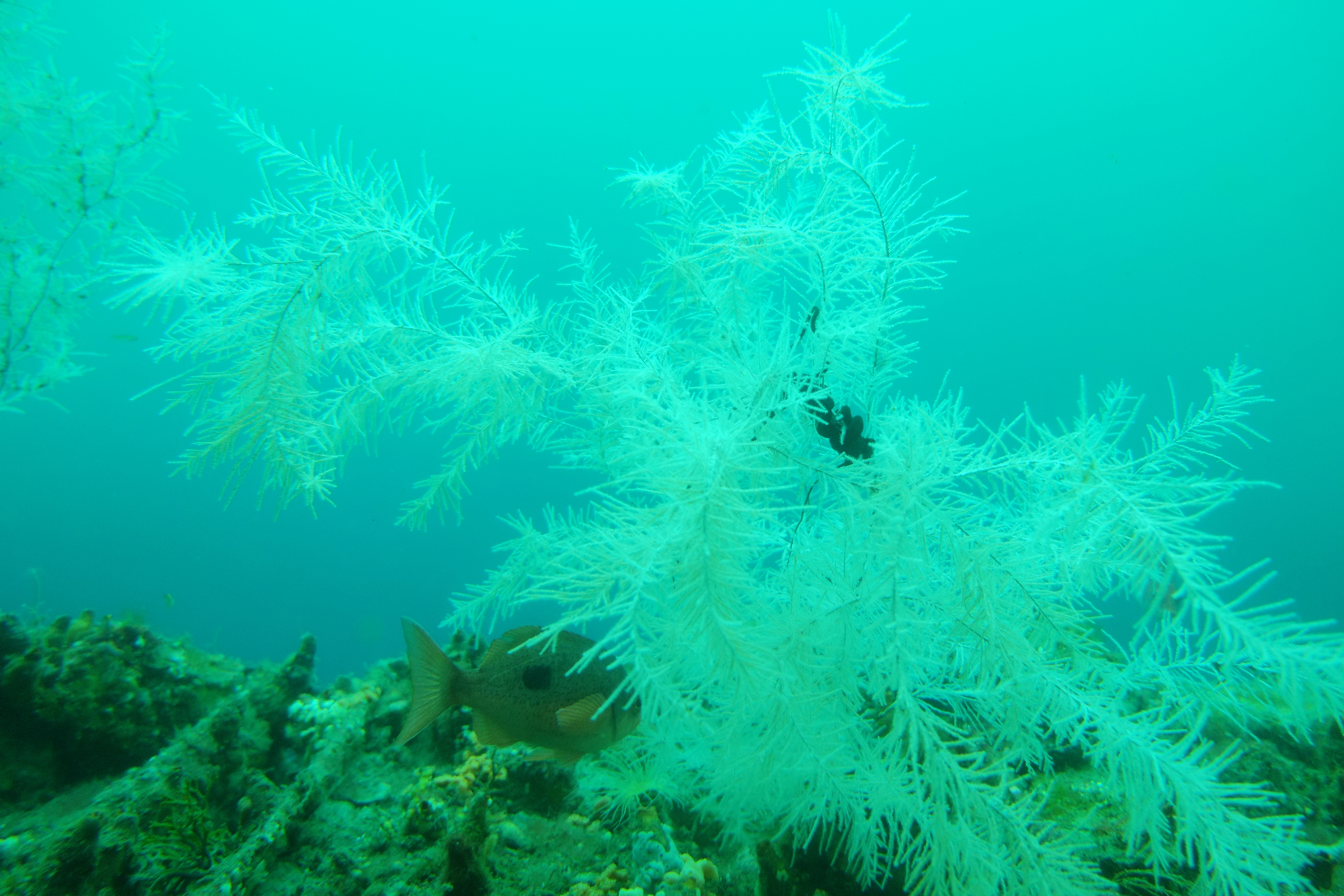 Black coral (white in color) with snake star (dark) wrapped around one if its branches